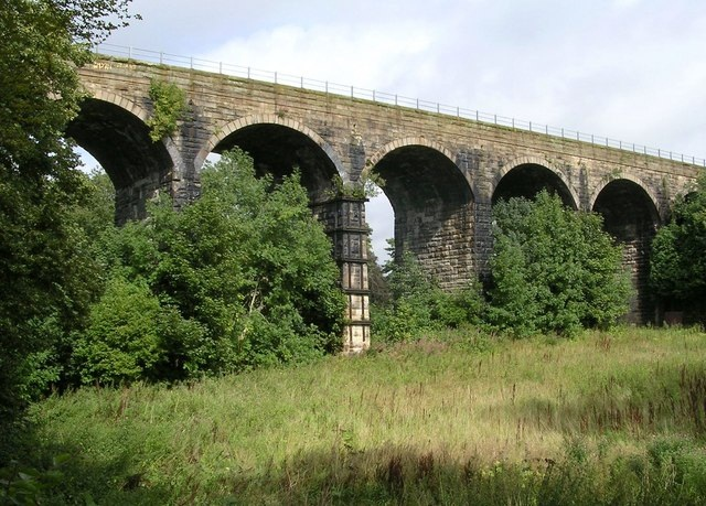 Cleland Viaduct